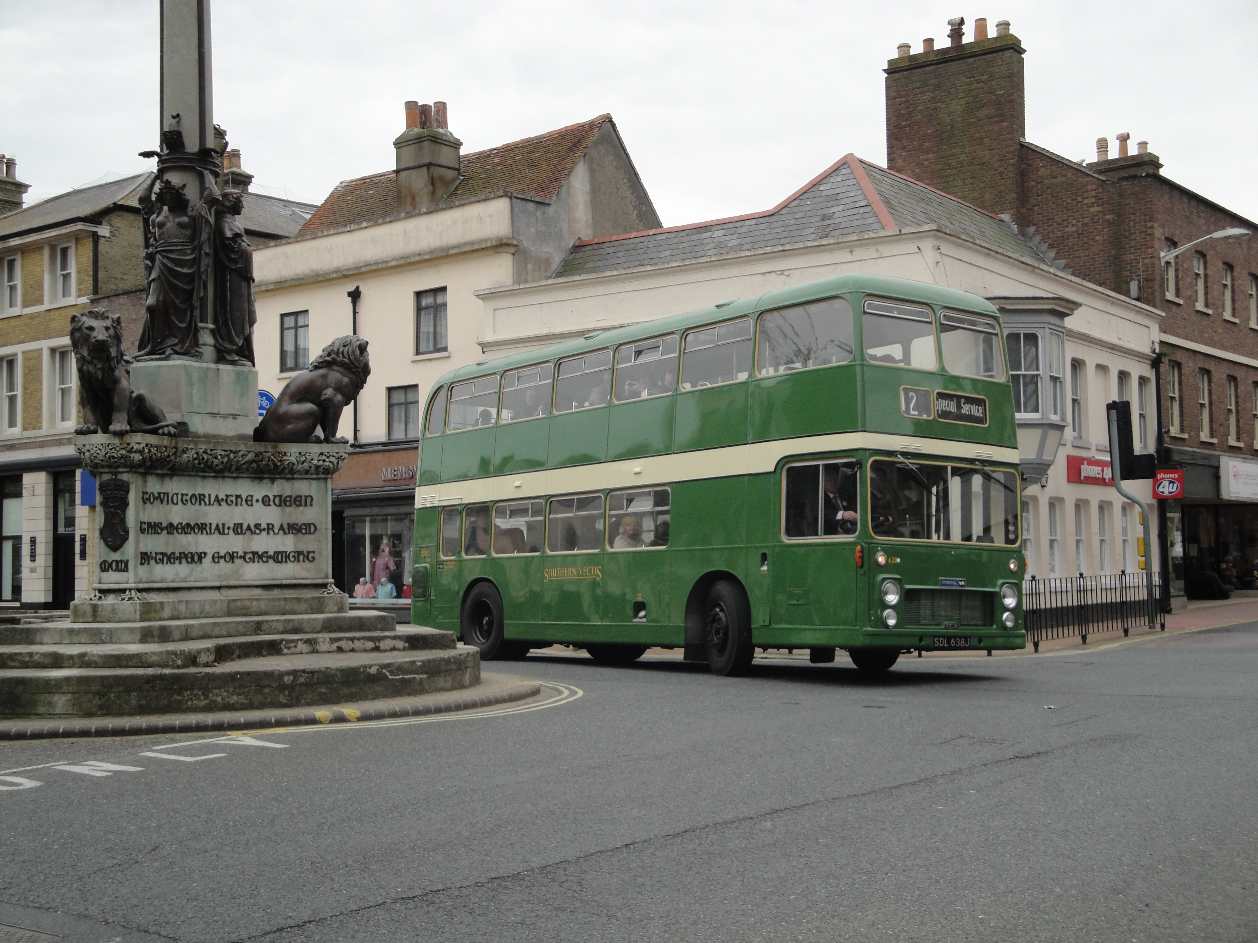 Preserved Southern Vectis 628 (SDL 638J), a Bristol VRT/ECW turning from St James Street onto the High Street, Newport, Isle of Wight and travelling to the Quay for the Isle of Wight Bus Museum running day in May 2010.